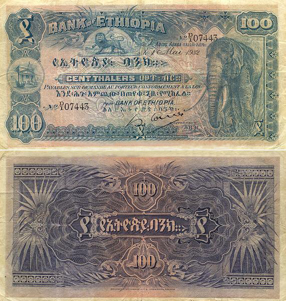 Ethiopian early birr